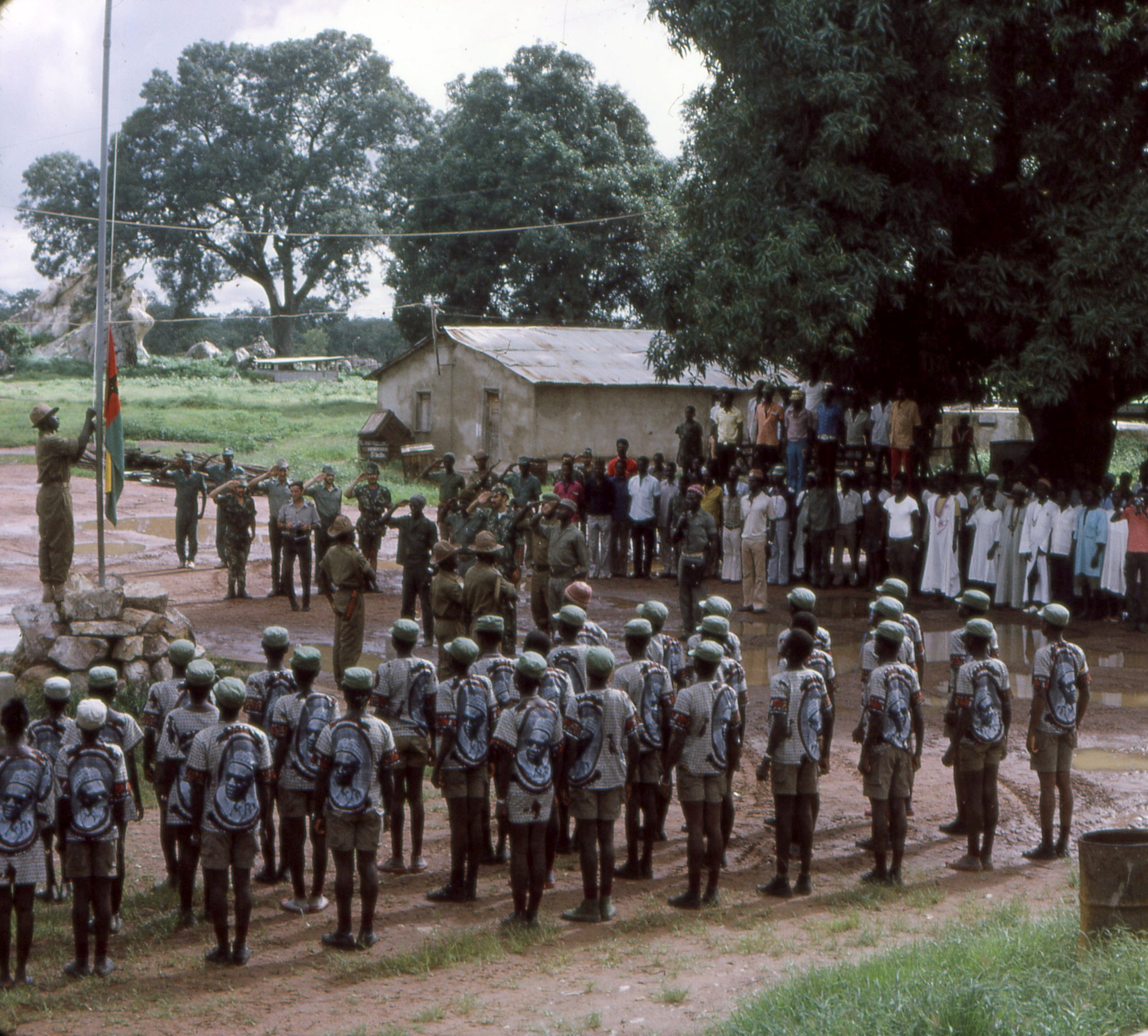 Running up the flag of Guinea-Bissau after the striking of the Portuguese flag in Canjadude, North-East Guinea-Bissau. The public consists of civilians, coloured and white military and a group of young people in shirts with a large portrait of a man in dark glasses and cap on the back (Sékou Touré??). Rocks in the background.